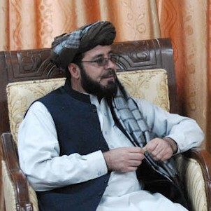 Ambassador Anthony Wayne along with Provincial Council Chairman, Dr. Nawab Waziri traveled to Paktika to meet with Gov. Moheebullah Samim and other local officials regarding rule of law and security.